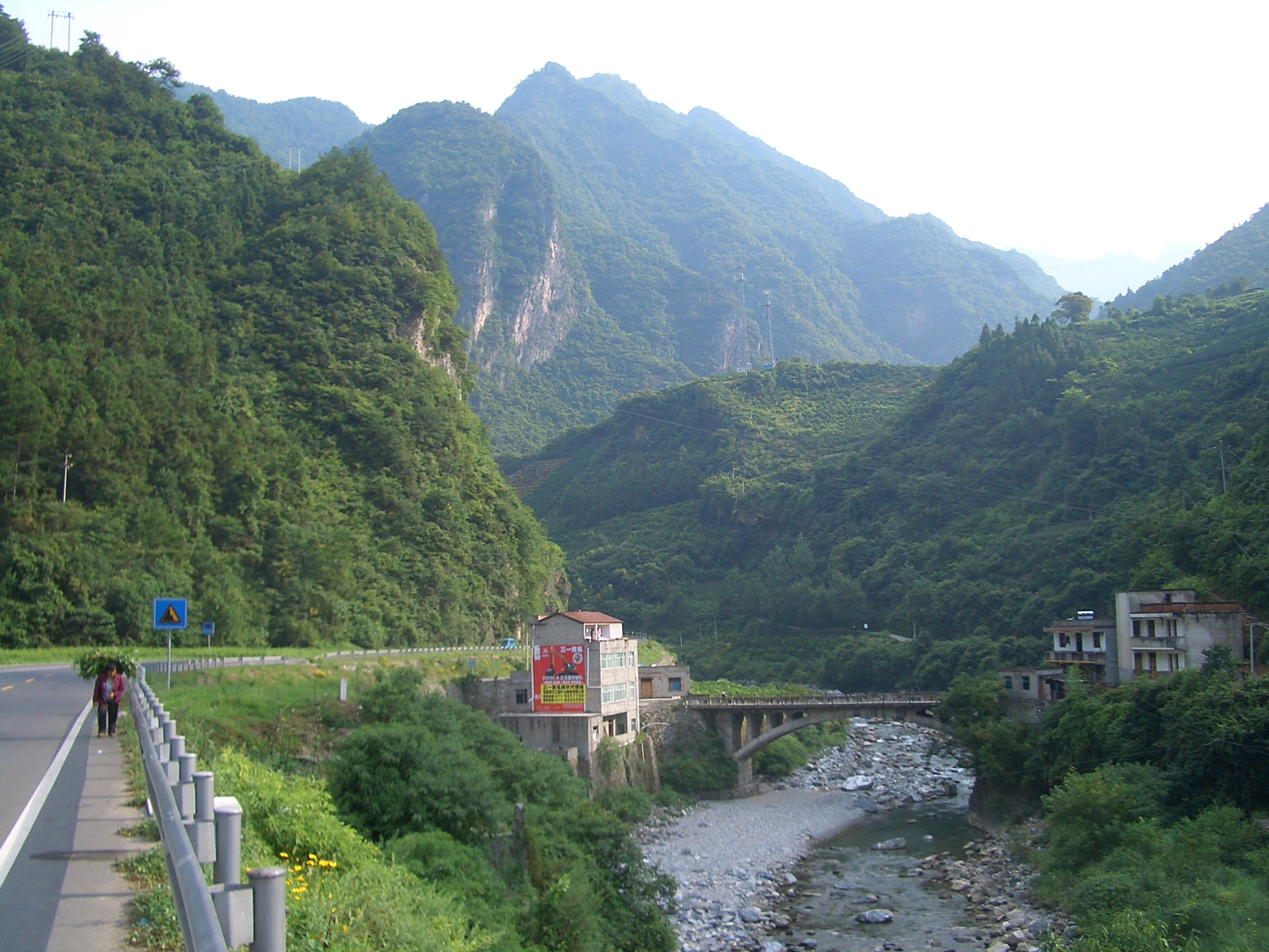 Xiangping River valley on the northern outskirts of Nanyang Town, Xingshan County, Hubei. (Travelling north on G209 toward Shennongjia)